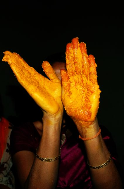 A woman's hands covered in turmeric paste during a Hindu ritual.